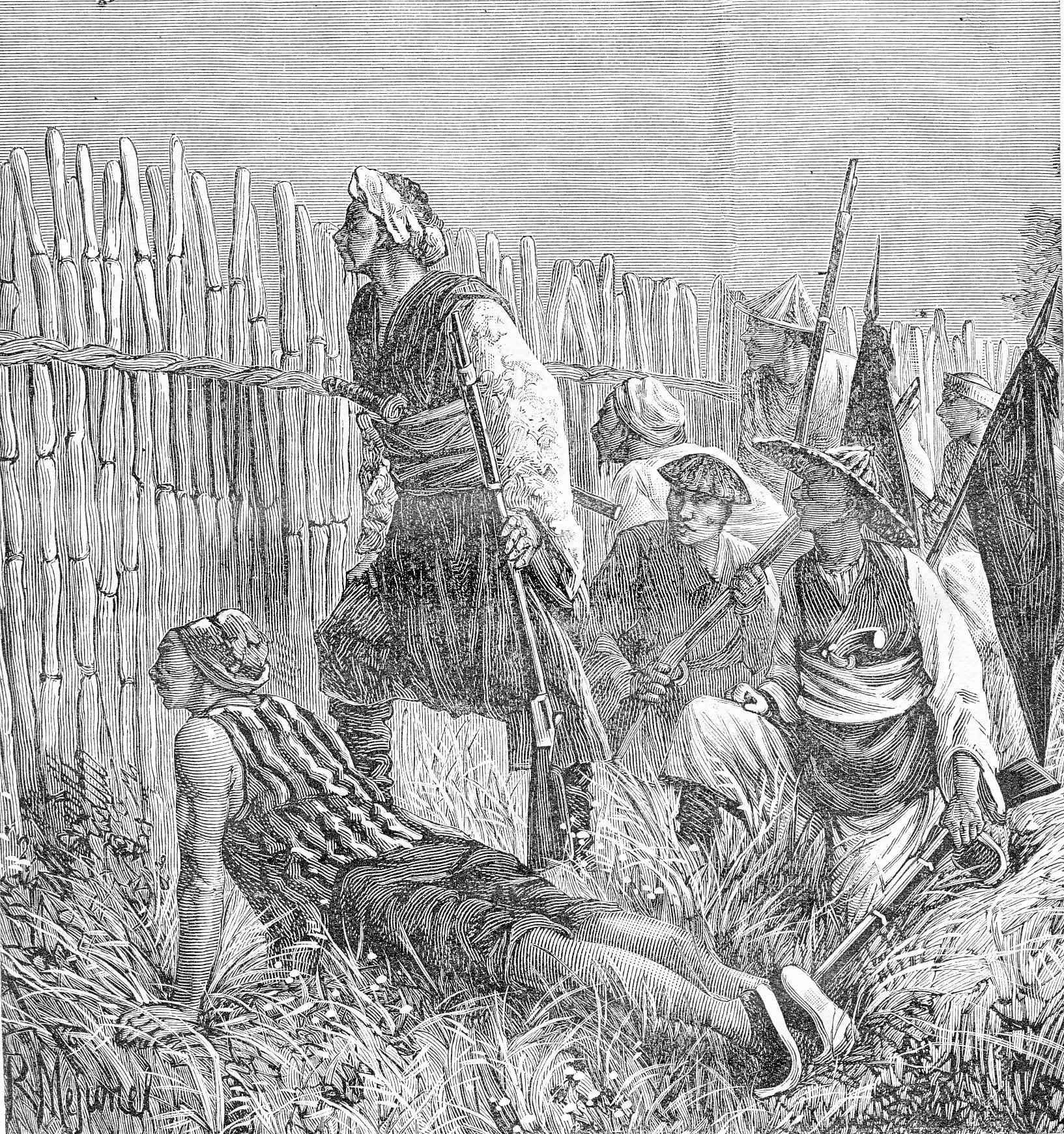 Black Flag soldiers lying in ambush, 1883